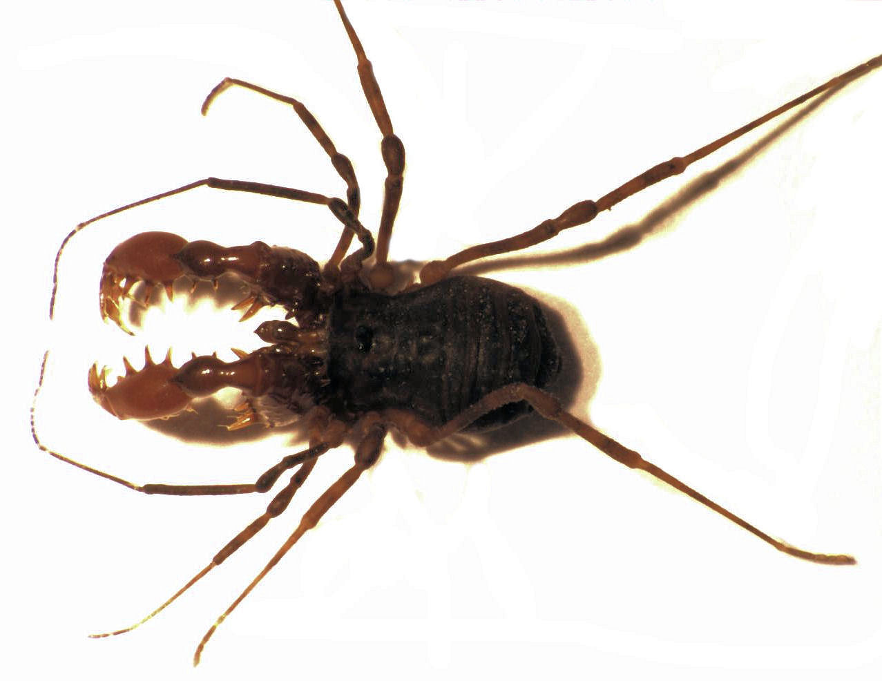 adult Soerensenella prehensor